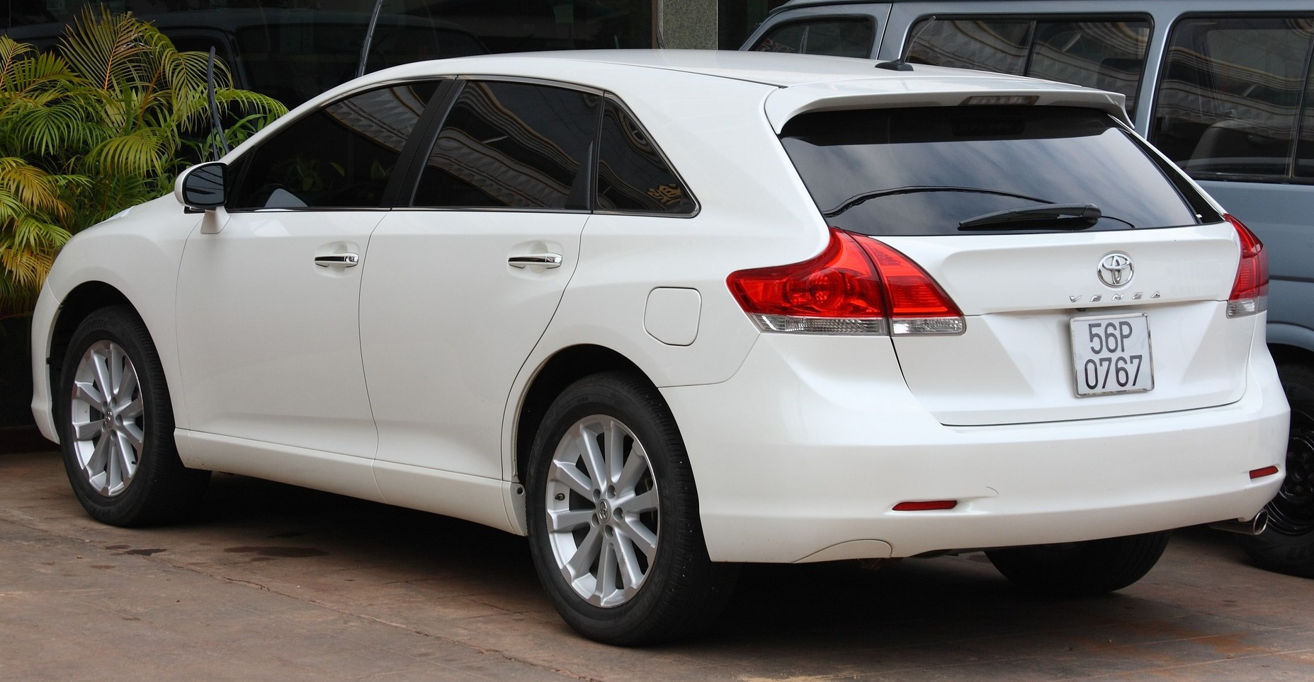 Toyota Venza from Vietnam in Savannakhet, Laos